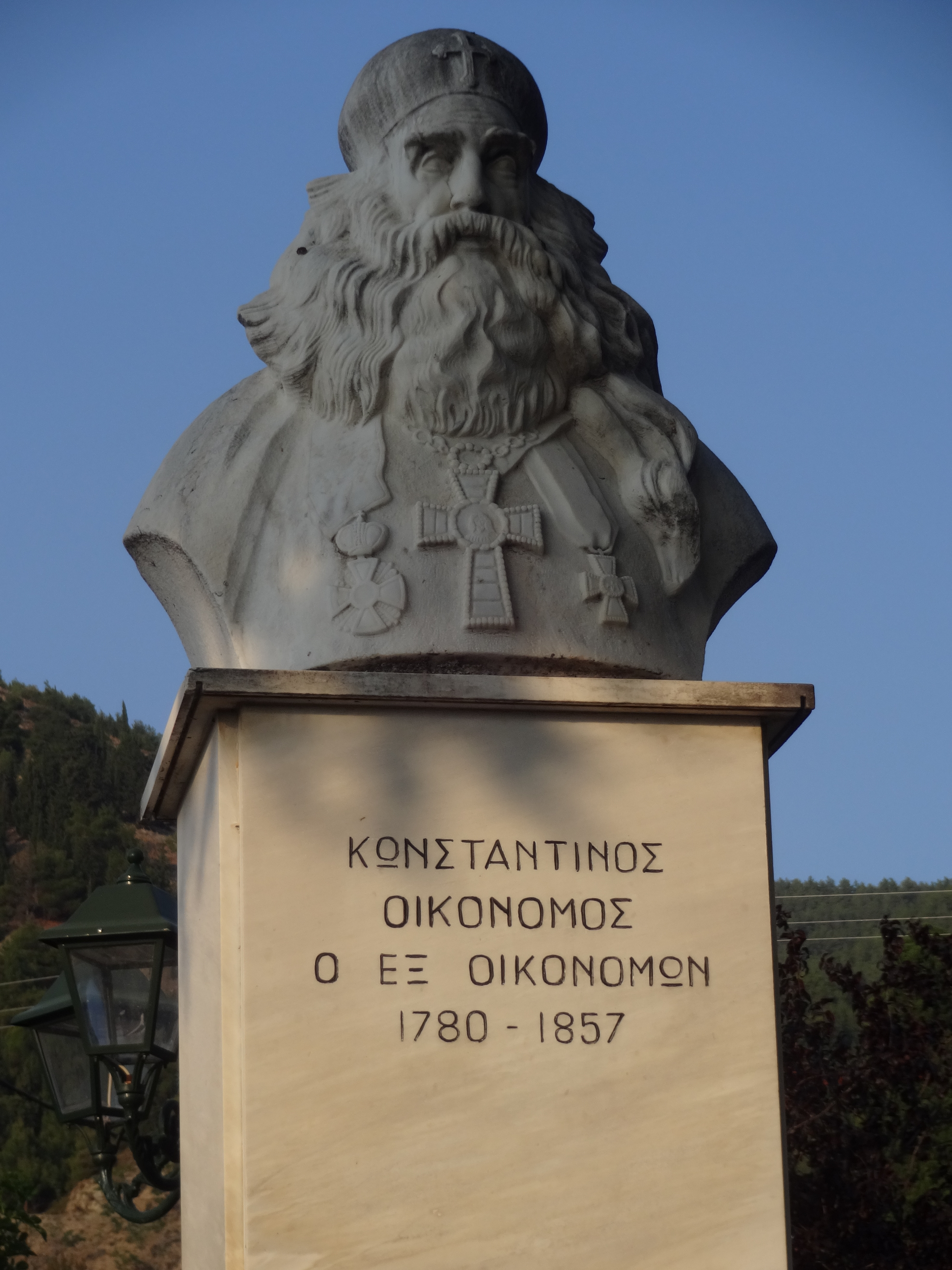 Tsaritsani, Greece. Bust of theologist K. Oikonomou (1780-1857)